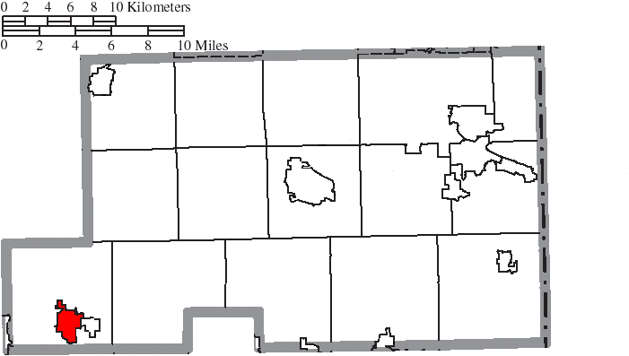 Map of the municipal and township boundaries of Mahoning County, Ohio, United States, as of the 2000 census, with the location of the village of Sebring highlighted. Township borders are shown only in unincorporated areas in order to differentiate incorporated and unincorporated areas more clearly.